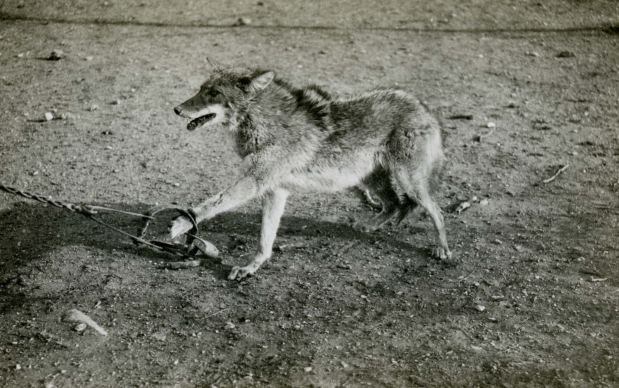 Photograph taken for Vernon Orlando Bailey during his work as field naturalist for the United States Department of Agriculture Bureau of Biological Survey. Bailey was particularly interested in creating more humane animal traps and devoted much of his time after retirement to this cause.